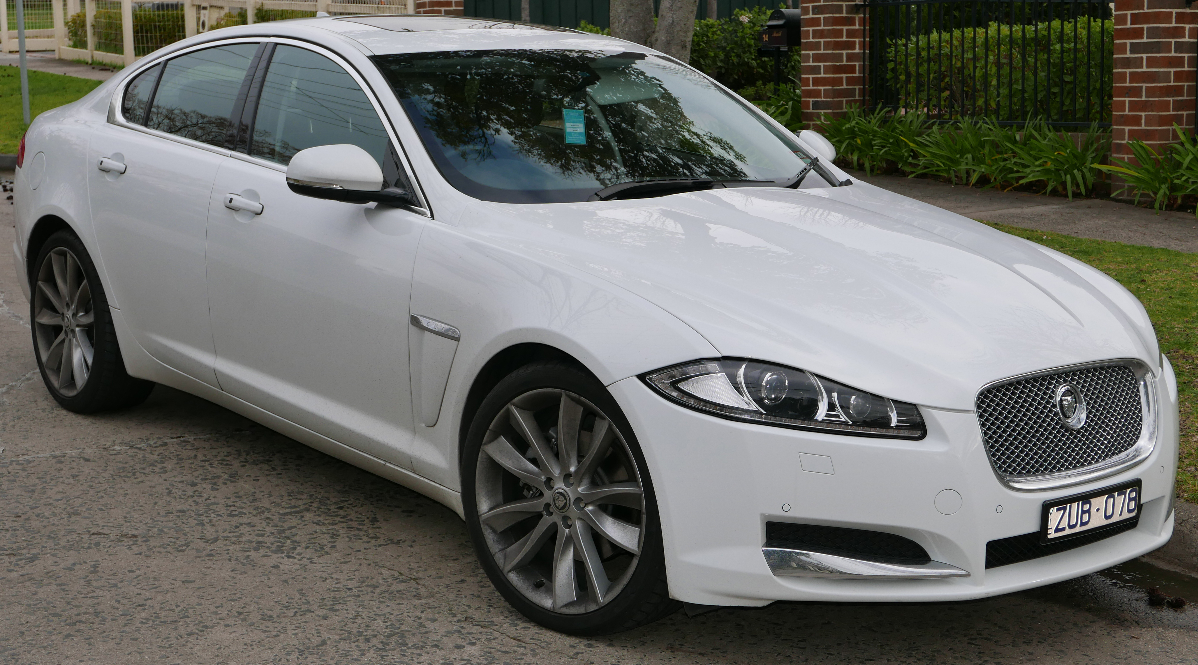 2013 Jaguar XF (X250 MY13) Luxury 2.2 sedan. Model details as per: [1]. Photographed in Balwyn, Victoria, Australia. Vehicle registration enquiry resultsJurisdictionVictoriaRegistrationZUB078Chassis codeSAJAC0567DDS71694Engine codeDZ804021531224DTCompliance date2013-02Year of manufacture2013